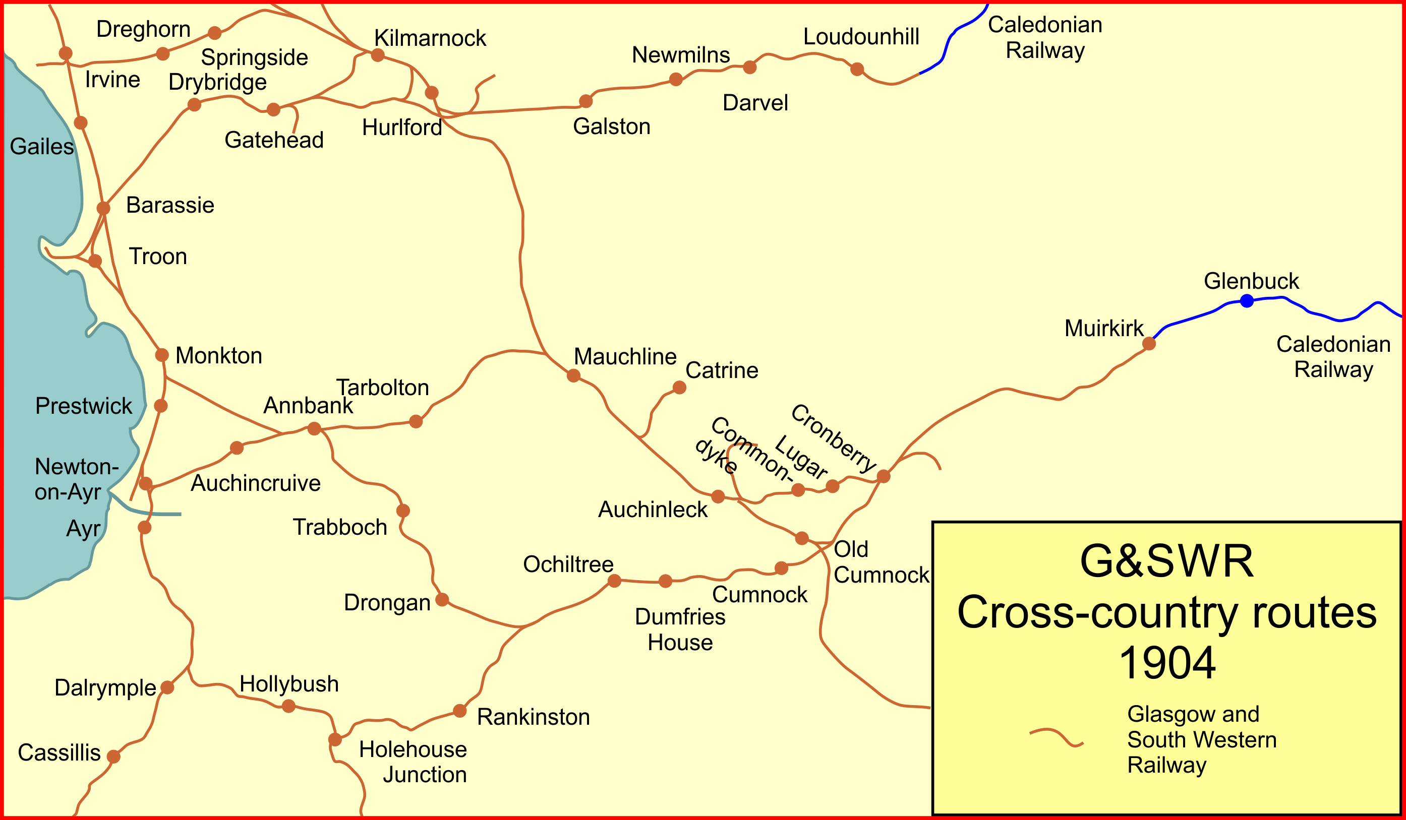 System map of cross-country lines of the Glasgow and South Western Railway in 1904